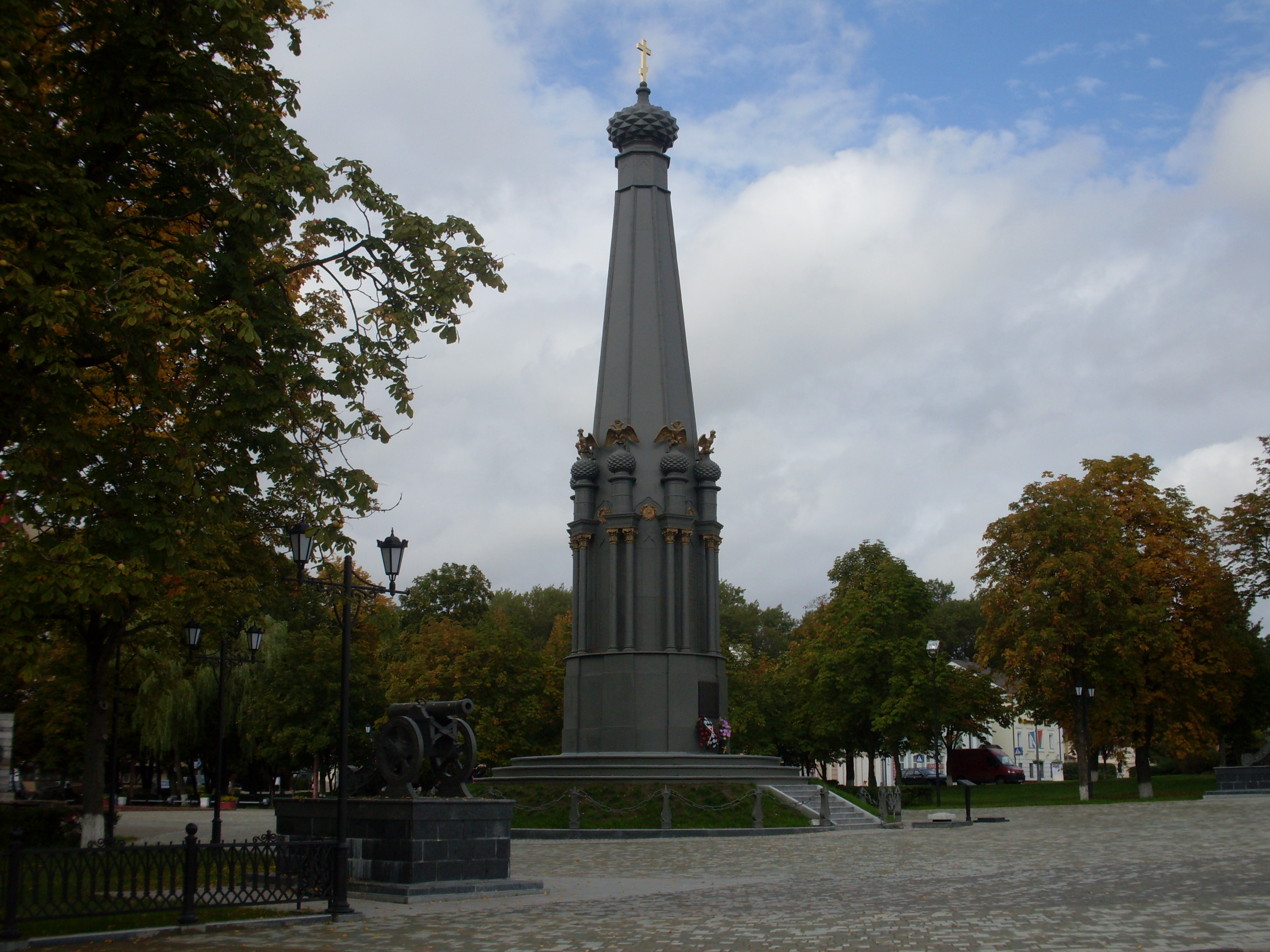 The monument-chapel of Heroes War of 1812 in Polotsk